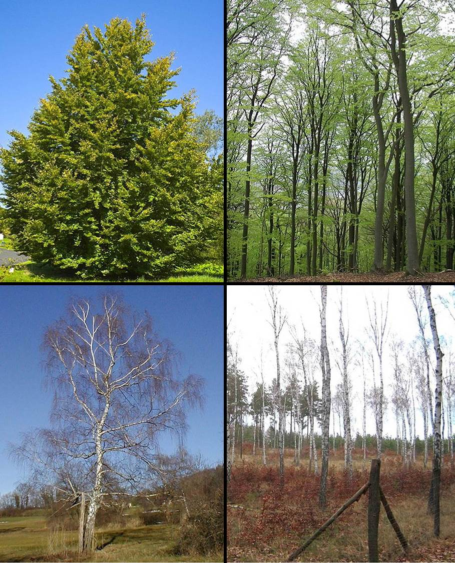 Einzel und dicht stehende Bäume zur Demonstration der Schattenflucht: Im Wald konkurrieren Bäume um Licht und zeigen eine Apikaldominanz, die kennzeichnend für die Schattenflucht ist. Collage aus folgenden Wikimedia-Dateien: Betula pendula winter.jpg Krausnicker-Berge-Buchenvoranbau-01.jpg Fagus sylvatica 008.jpg Fagus sylvatica 018.jpg